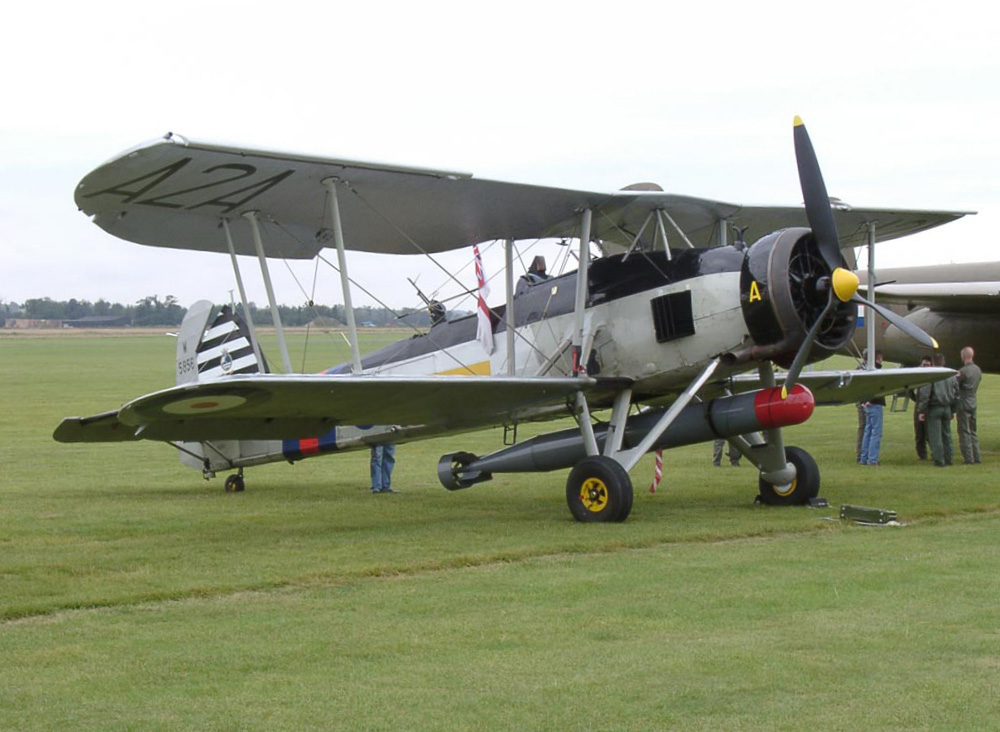 Fairey Swordfish II standing on airfield, Duxford 2002 Air Show